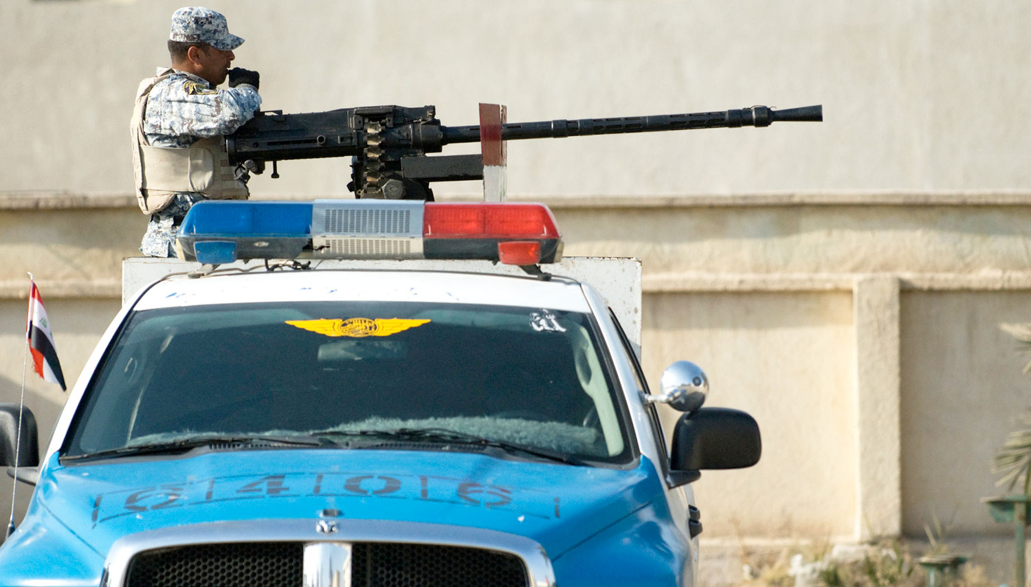 An Iraqi National Policeman pulls security at a school in the Al Amtahiya neighborhood in Basra, January 14, 2009. This school will be a voting site for the elections, January 31.